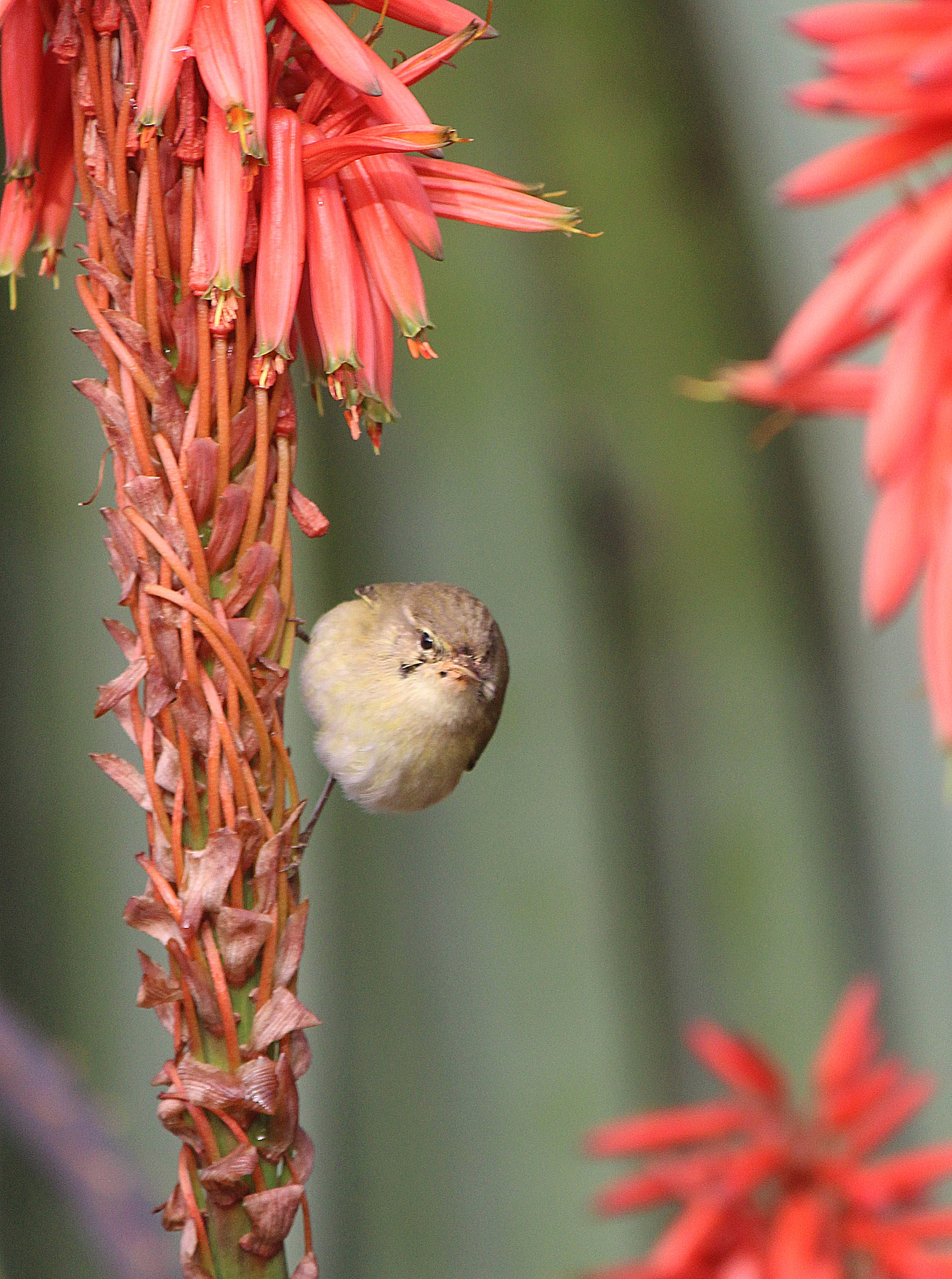 Lisbon, Jardim da Estrela, Aloe vera and chiffchaff